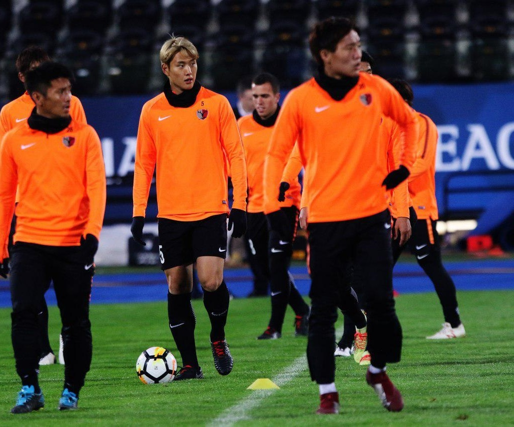 Persepolis FC v Kashima Antlers (0-0), 2018 AFC Champions League Final, Second leg, 10 November 2018